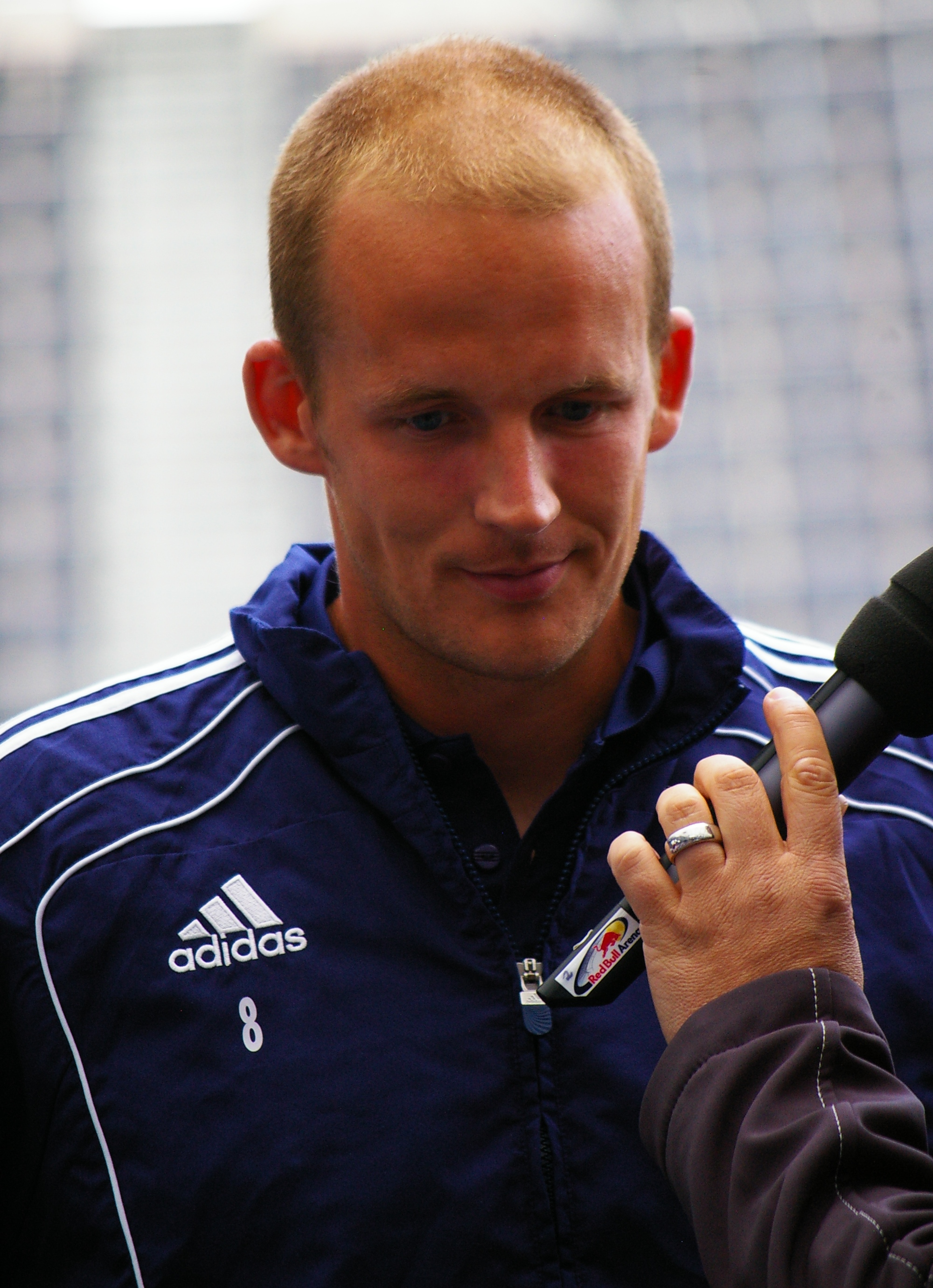 defender soccer